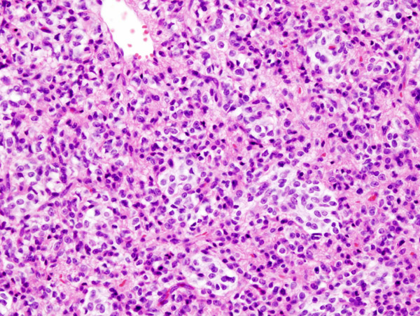 Histopathological image of anaplastic oligodendroglioma in cerebrum. Another view of the same case in a file "Anaplastic_oligodendroglioma_(1).jpg". Hematoxylin & eosin stain.